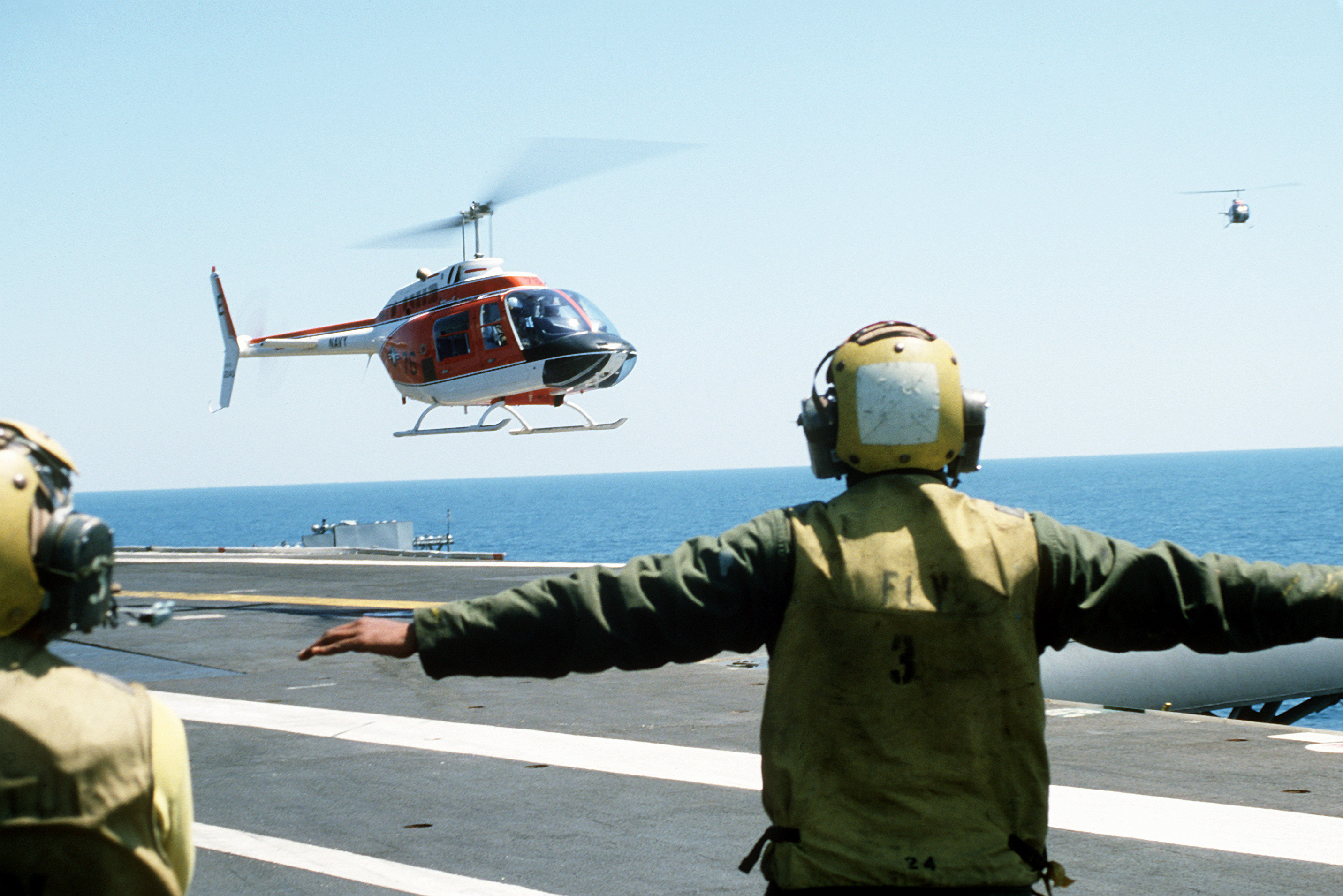 A U.S. Navy Bell TH-57A Sea Ranger helicopter lands on the deck of the training aircraft carrier USS Lexington (AVT-16) during helicopter flight training, in 1985.